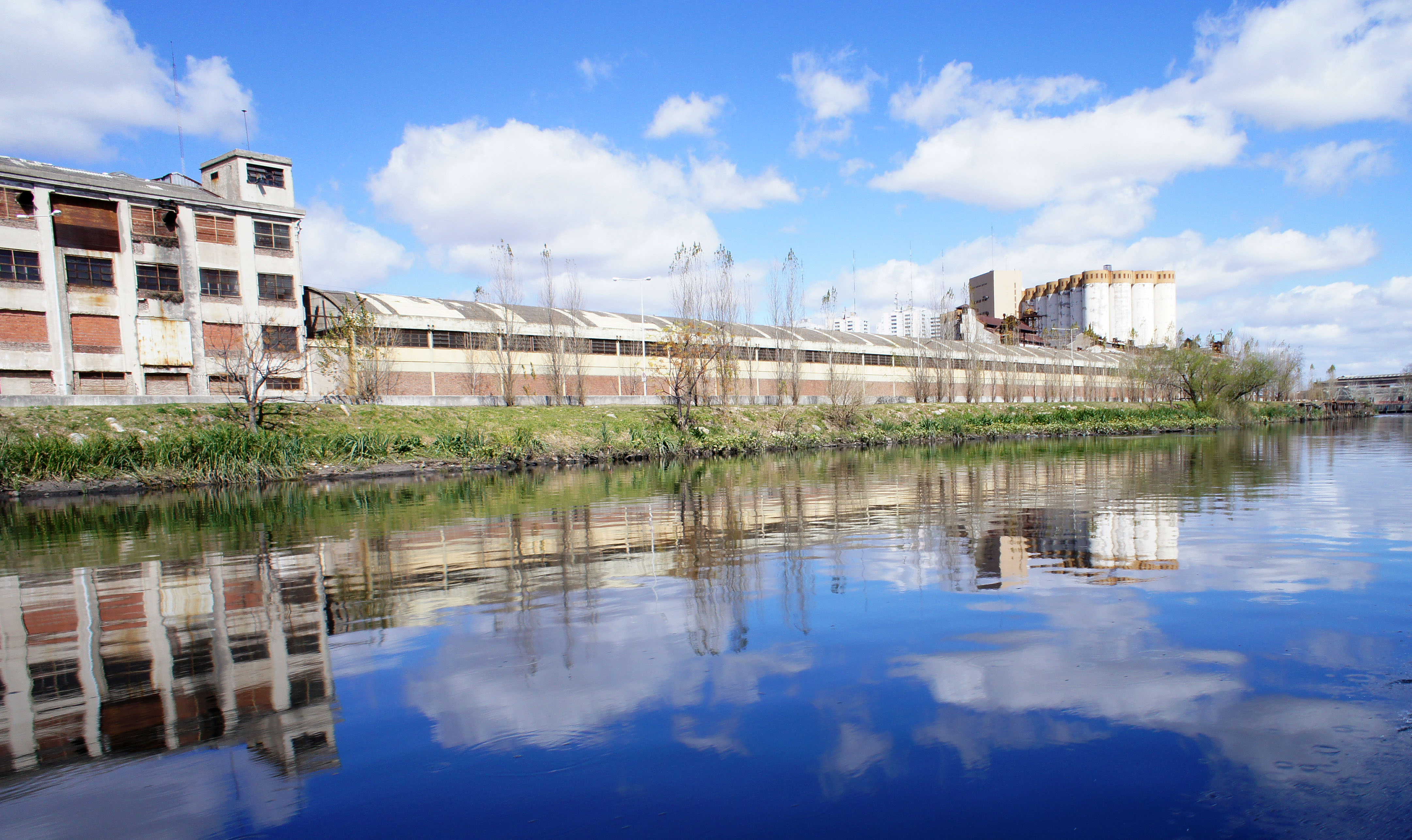 El Camino de Sirga está siendo liberado.